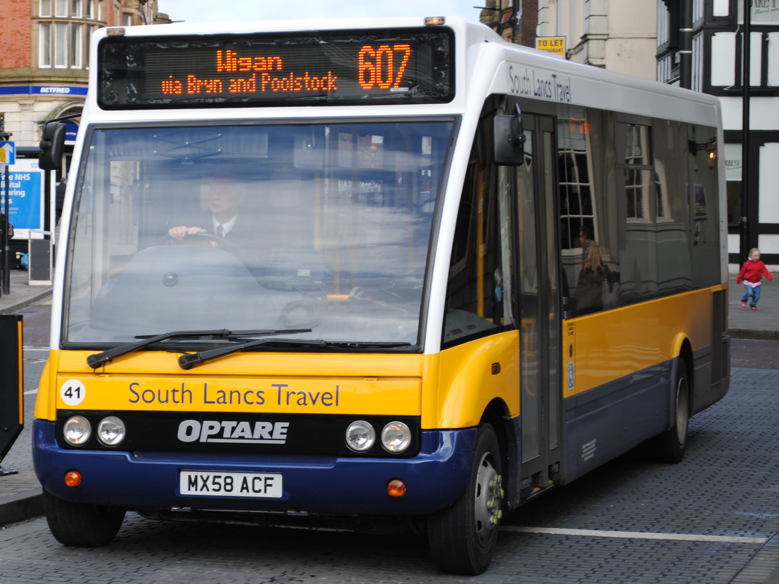 Optare Solo M880. new to Sheffield Community Transport